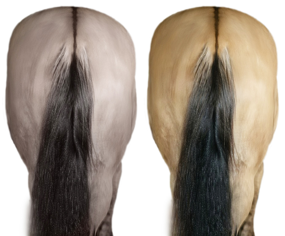 Isolated examples of dorsal stripes on a classic dun and grullo horse.